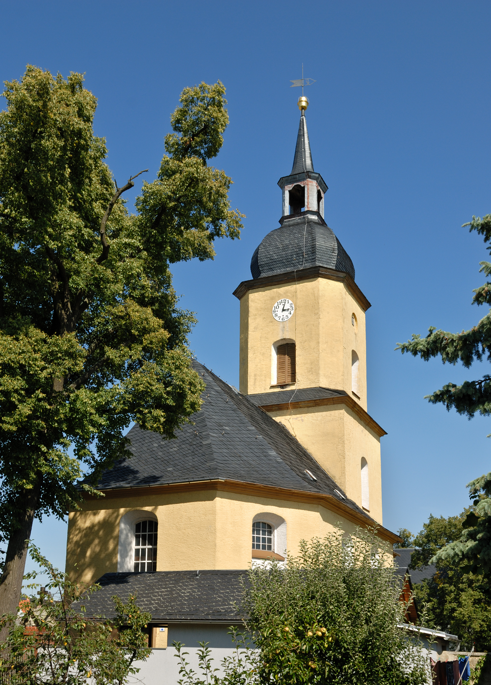 This image shows the church in township Merkendorf in Thuringia.